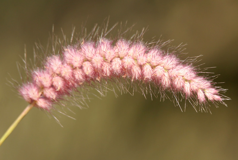 Pennisetum pedicellatum in Hyderabad, India.